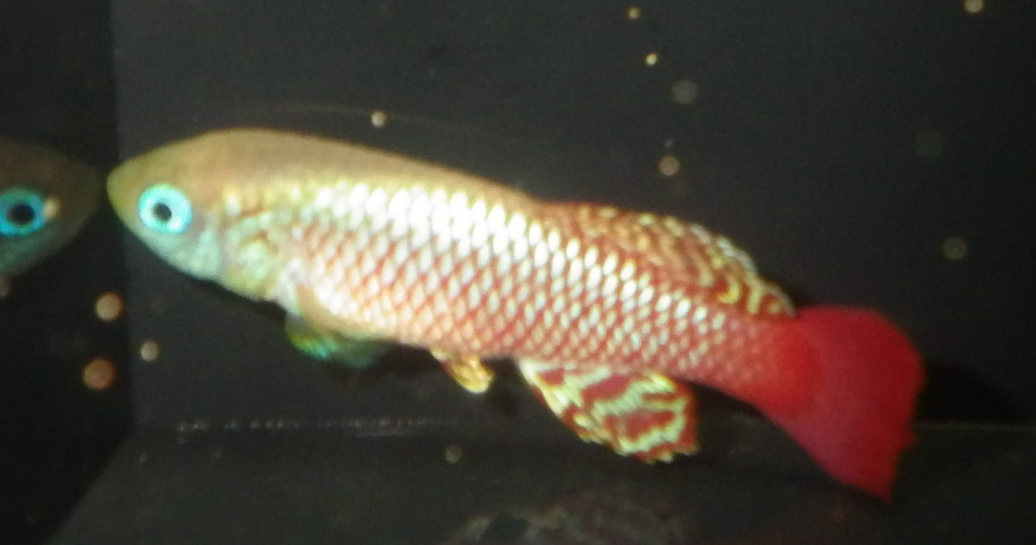 Nothobranchius palmqvisti, adult male